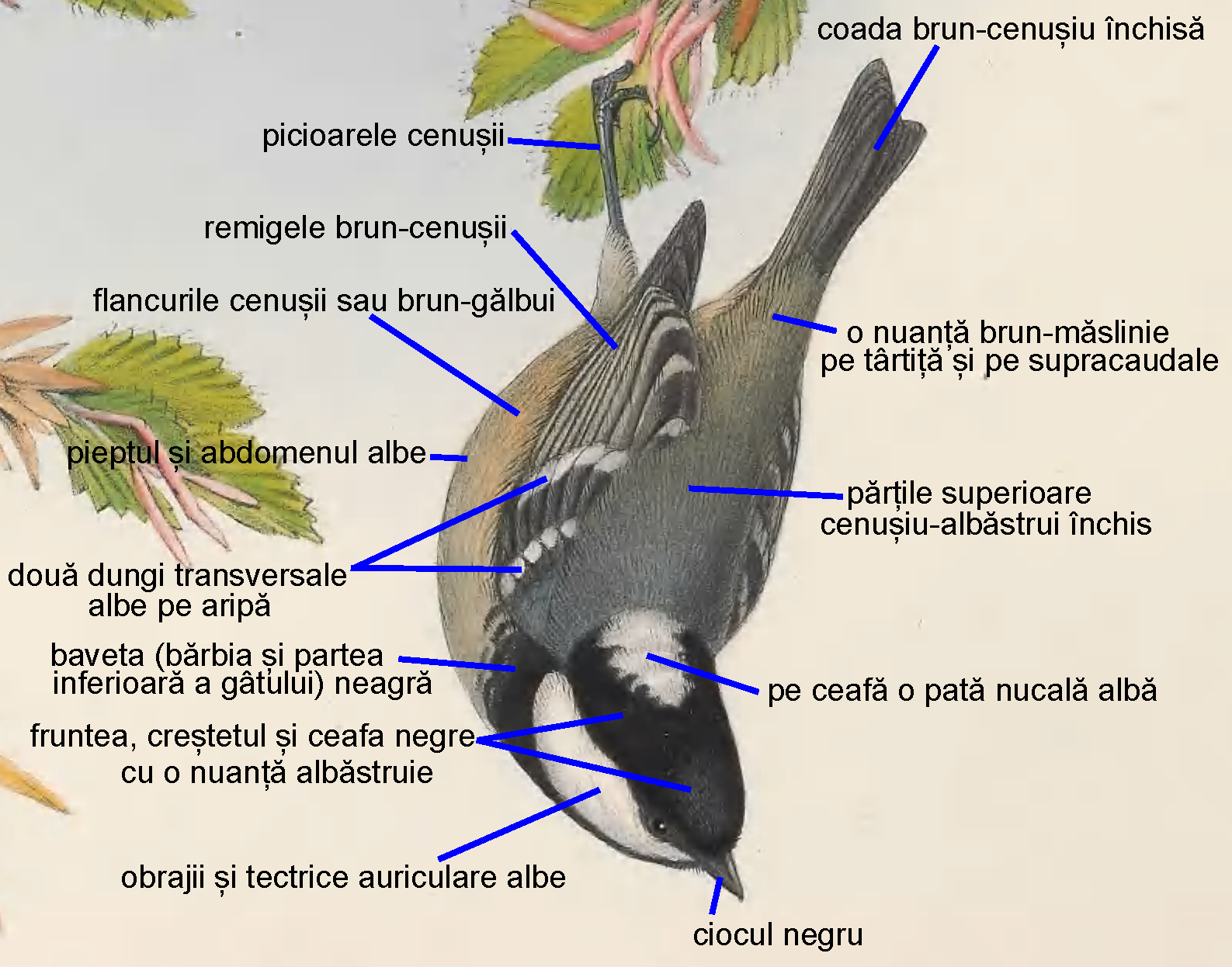 Parus ater ro